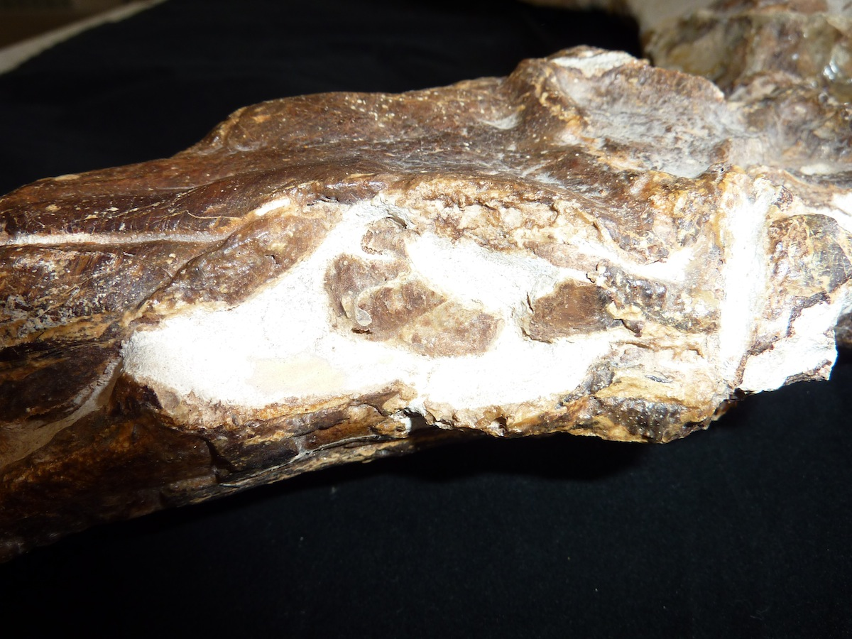 This is a Tethysaurus sclerotic eye ring prepared by Fossil Shack. The ring was used much like the focusing mechanism in a camera.